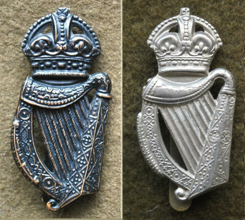 Cap Badges of the London Irish Rifles. Left-WW1: Right WW2